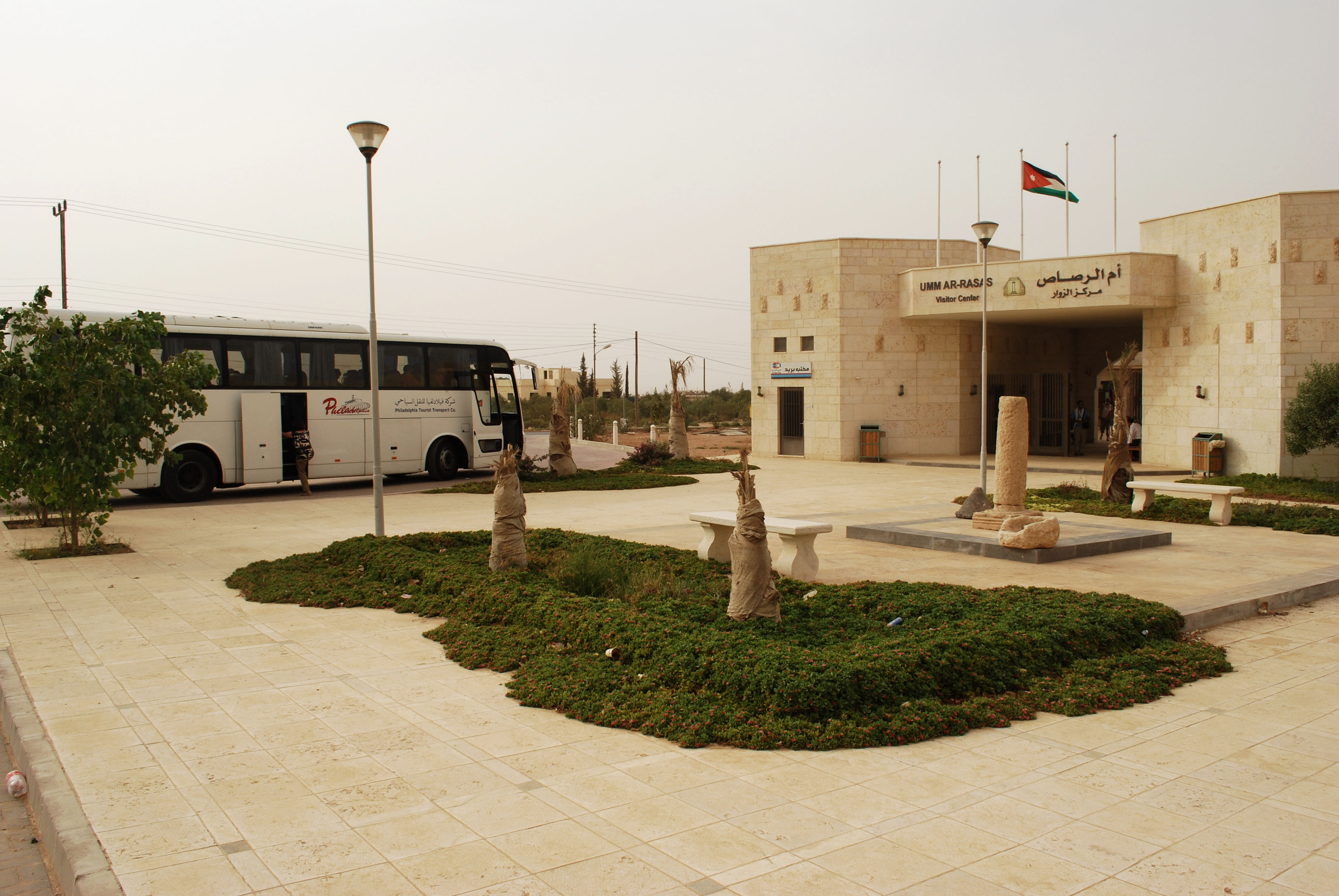 Temsa Safir coach in Umm ar-Rasas, Jordan.